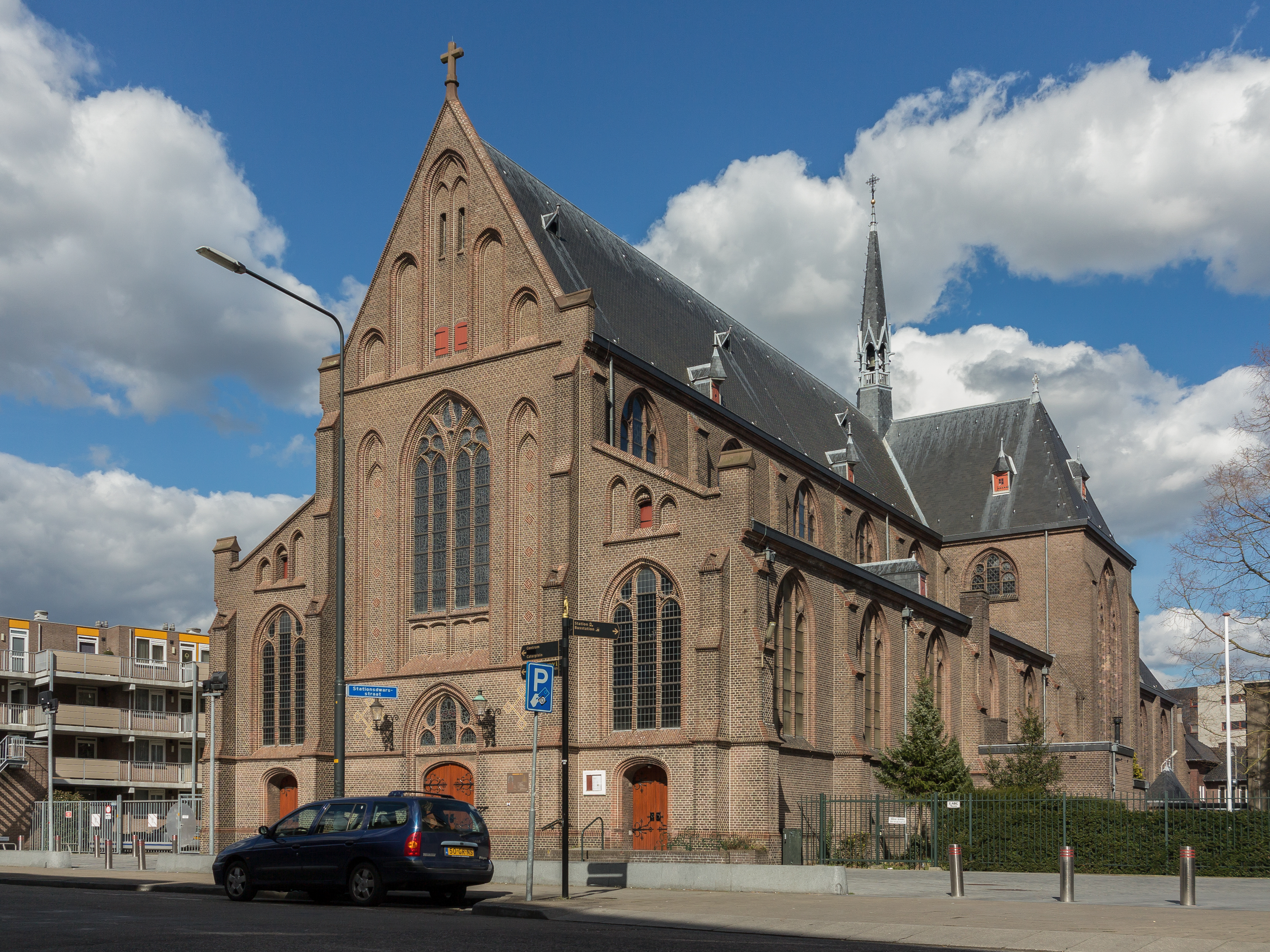 Apeldoorn, church: de Mariakerk